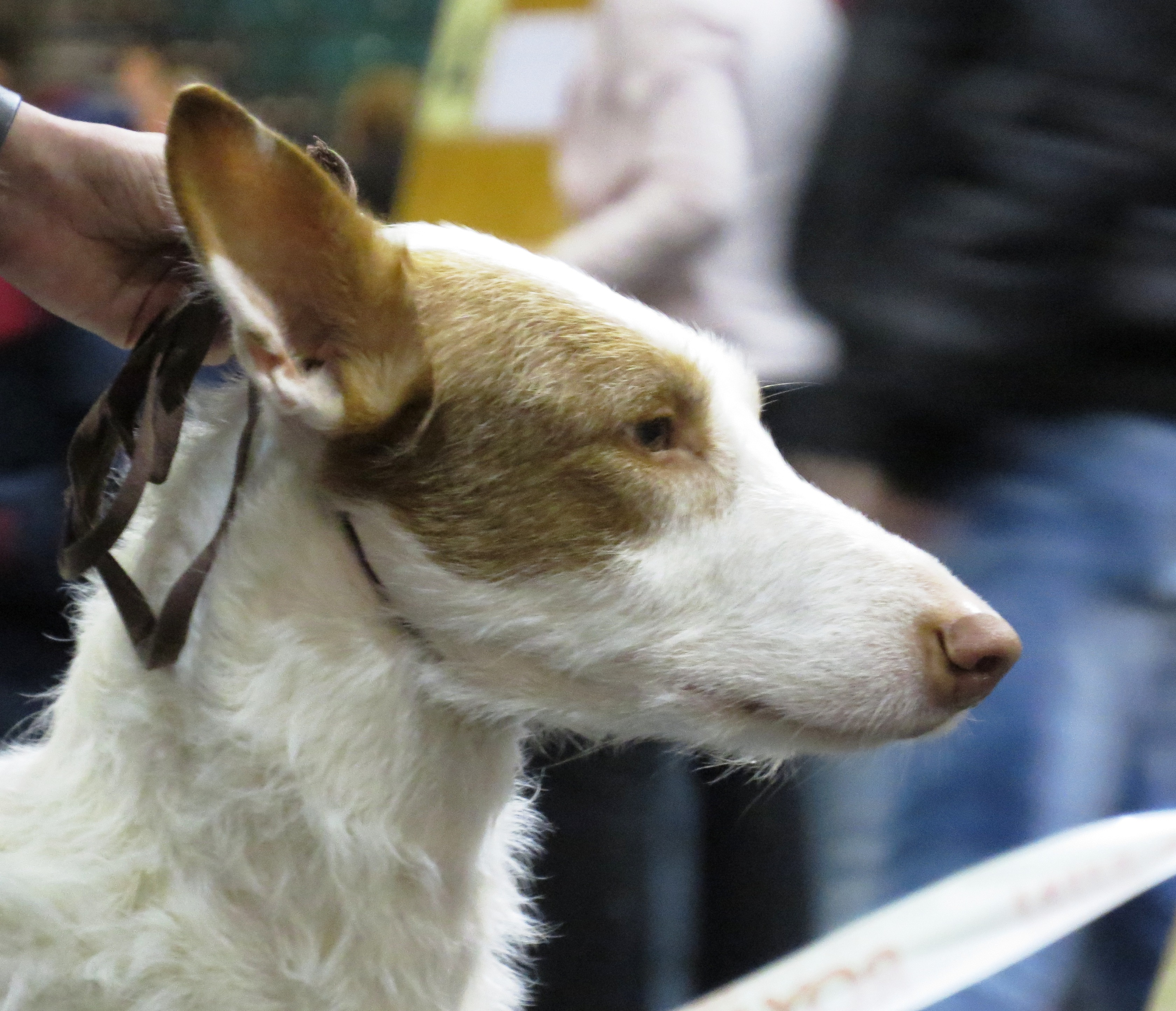 Riga, Baltic Winner 2013, 9-10 Nov